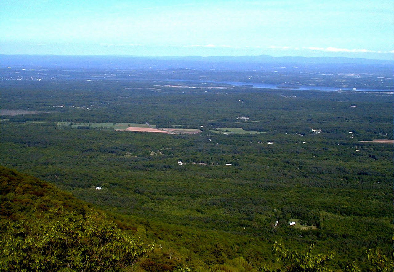 View from the site of the Catskill Mountain House Taken by User:Mwanner, 21 May, 2004.